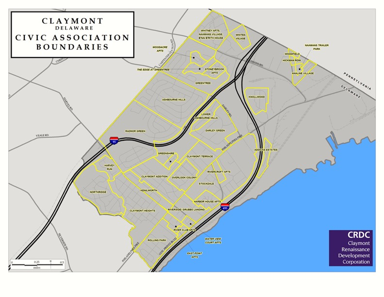 This is a WILMAPCO generated map for the Claymont Renaissance Development Corporation depicting Claymont's neighborhoods, which extend West of Interstate 95